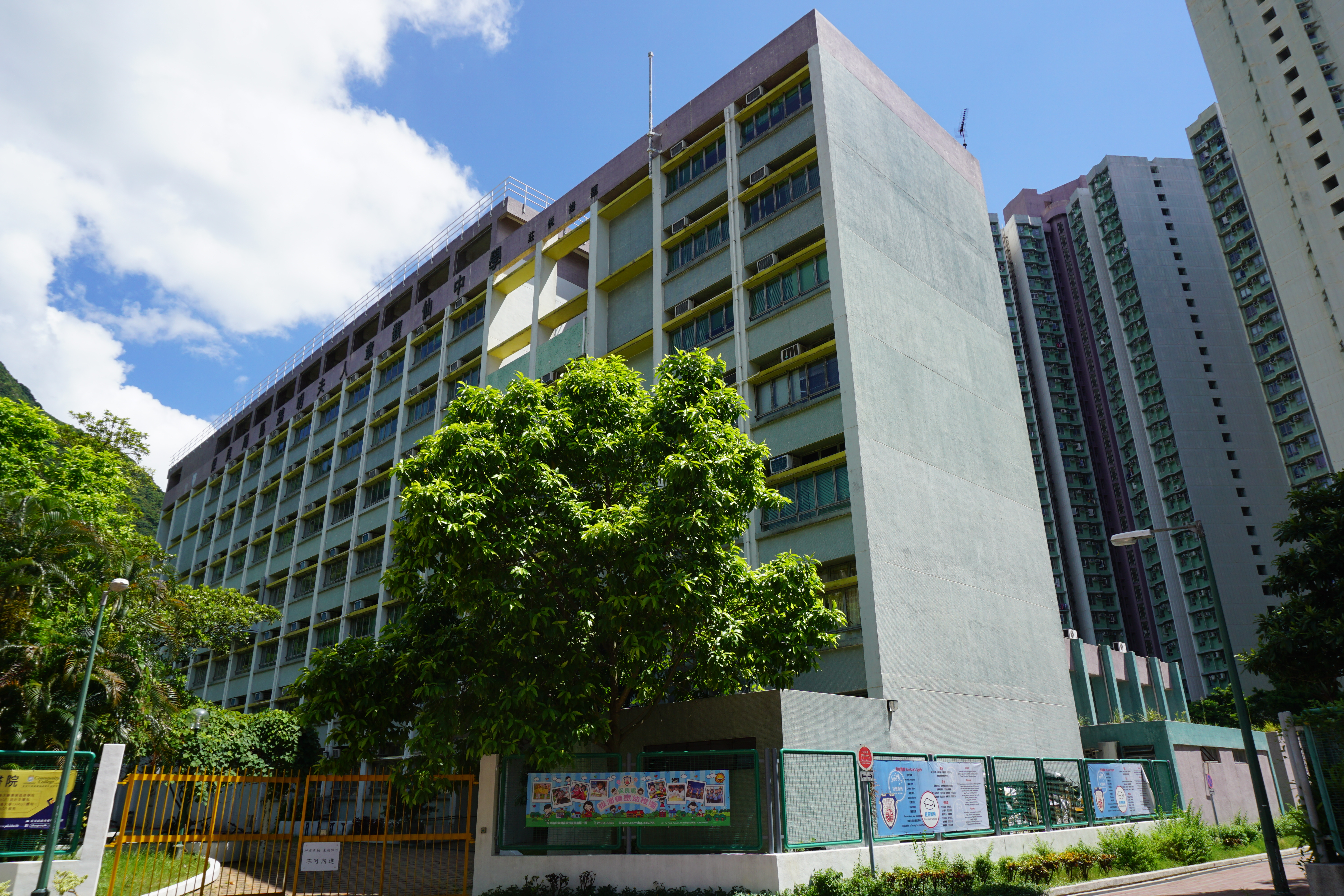 Po Leung Kuk Mrs. Ma Kam Ming-Cheung Fook Sien College in Tung Chung, Hong Kong.